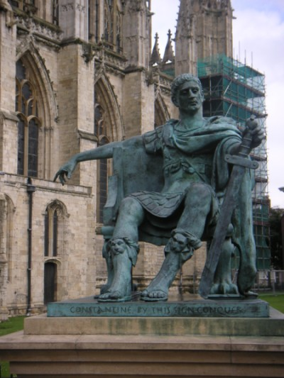 This is a sculpture of Constantine I in York near the spot where he was proclaimed emperor. The words at the base of the sculpture are "By this Sign Conquer," referring to his use of the christian cross as the sign of the empire. The sword in the sculpture is broken to symbolically form a cross. The plaque beside the statue reads: Constantine the Great (274-337) Near this place Constantine the Great was proclaimed Roman Emperor in 306. His Recognition of the civil liberties of his Christian subjects and his own conversion to the Faith established the religious foundations of Western Christendom. This statue was provided by the York Civic Trust and unveiled by the Rt. Revd. and Rt. Hon. Lord Coggan DD. former Archbishop of York and of Canterbury on 25 July 1998. The York Minster Cathedral is in the background. photo by Tim Nafziger, June 30 2004